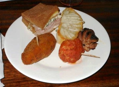 An assortment of bar food known as Cichetti in Venice, Italy.